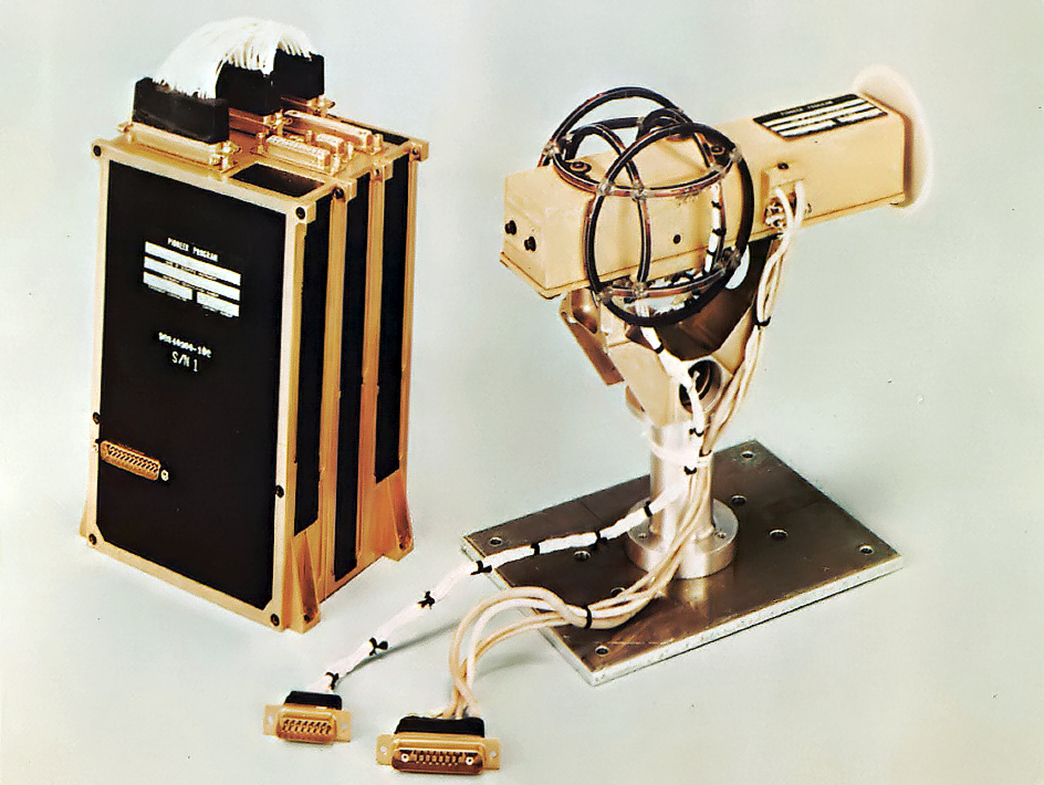 The magnetometer, mounted on a long boom to keep it far away from the RTGs measures magnetic fields in space and in the vicinity of Jupiter. The electronics at the left of the magnetometer are mounted in the spacecraft.